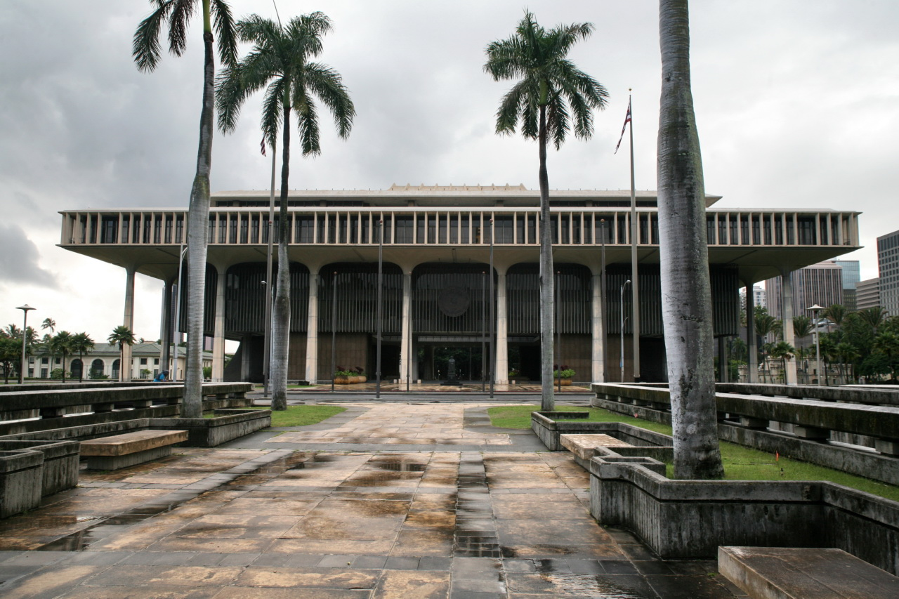 Hawaii State Capitol, Honolulu. The number eight is found throughout the building, signifying the eight major Hawaiian islands. There are eight columns in the front and back of the building, groups of eight mini-columns on the balcony that surrounds the fourth floor and eight panels on the doors leading to the Governor’s and Lieutenant Governor’s chambers.